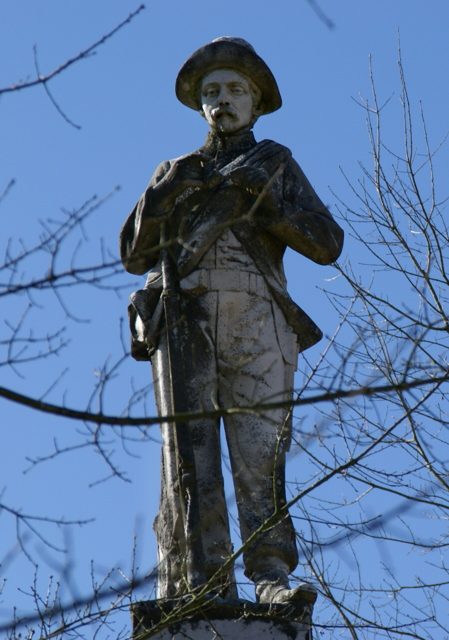 Memorial statue at the main square in Lumpkin, Georgia, USA